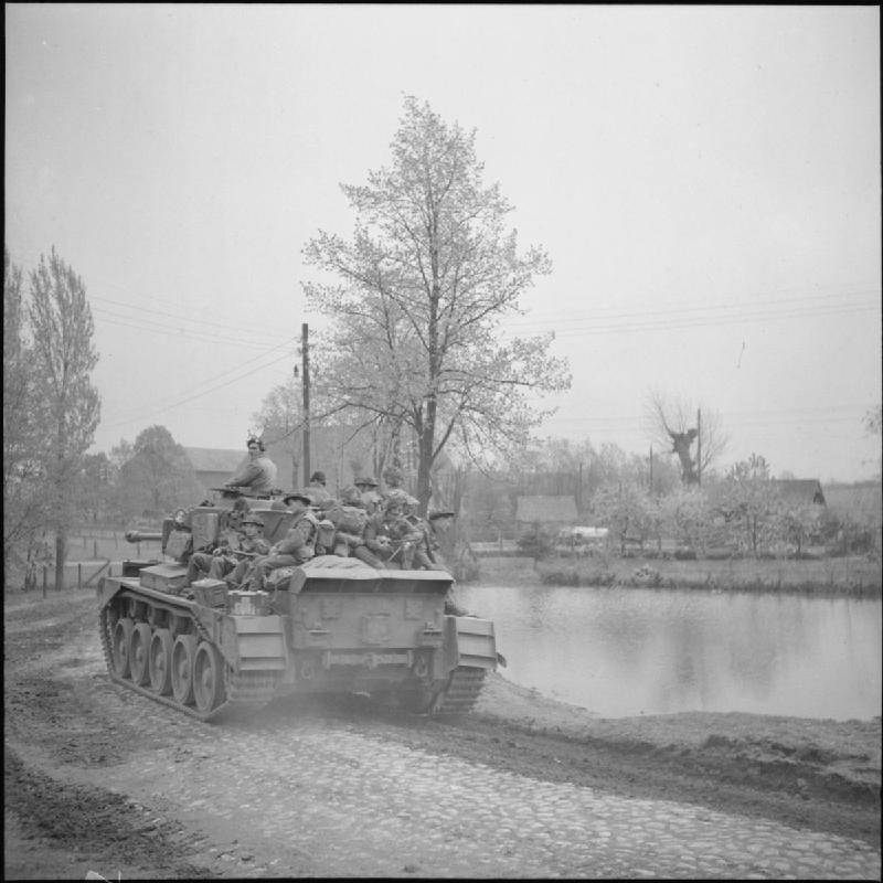 The British Army in North-west Europe 1944-45 Comet tank of 3rd Royal Tank Regiment carrying infantry of 1st Herefordshire Regiment, 2 May 1945.